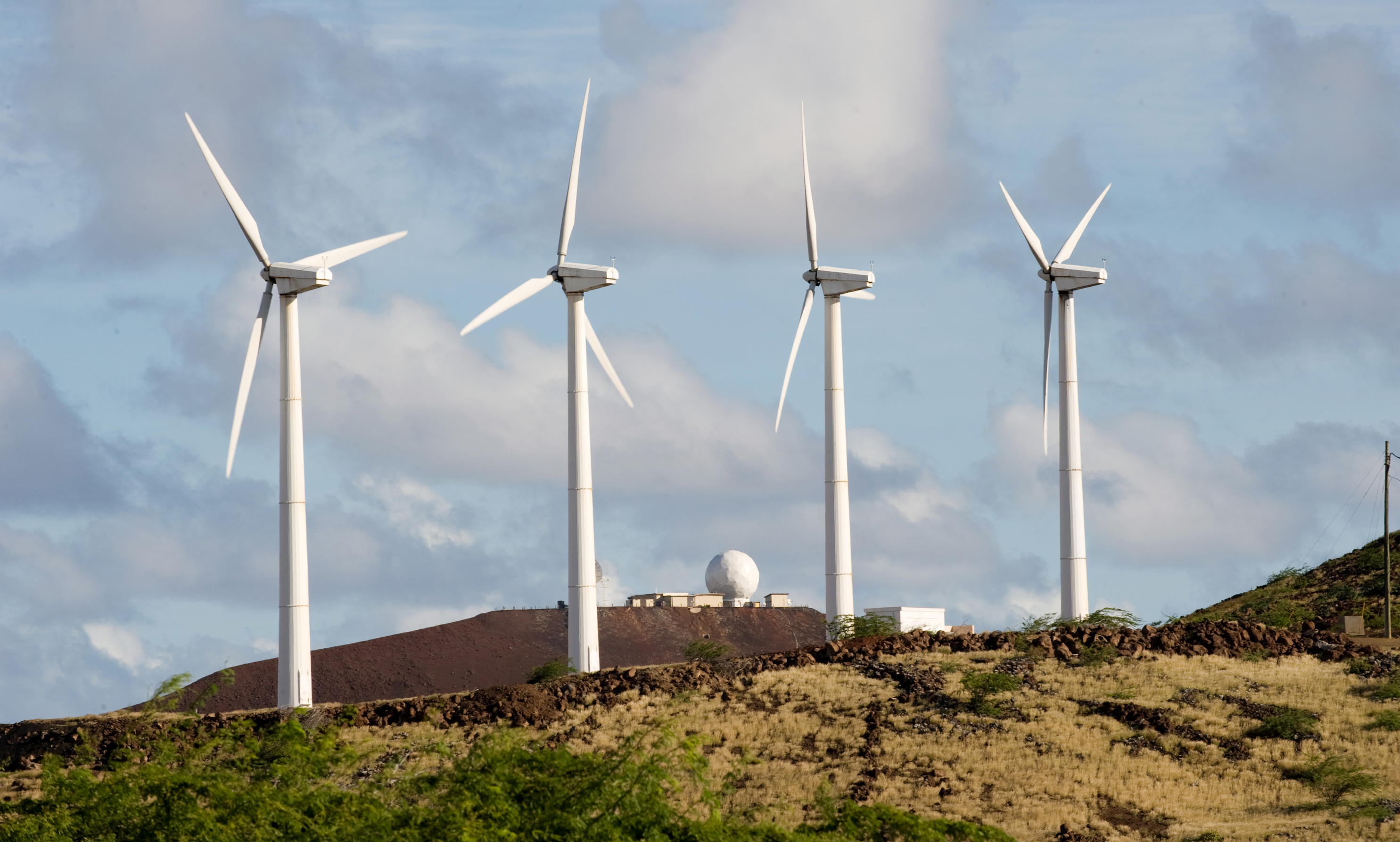 Ascension Island Green Way On rugged lave rock terrain these four 225 kW wind turbines are the first phase of a six turbine site of the 45th Operations Group, Detachment 2, at Ascension Auxiliary Airfield (AAF), South Atlantic Ocean. Behind them, one of the facilities they help power, the TAA-3C-1 and TAA-3C-2 telemetry systems on South Gannett Hill on June 28, 2009. The wind turbines work in parallel with low-load diesel generators powering the airfield, Space Command sites and facilities, and a royal air force airfield facility on the island. Ascension AAF's award winning economical self-sufficiency solutions also includes drinking water production and waste water treatment. "It is exciting to see this base operate in a "green" environment day-to-day. It is cost effective and at the same time, protects our environment without interfering with any of our various missions down here. Going "green" has actually helped us become more efficient providing power, and water to the air field and the base" said Major Jay Block, detachment commander. The mission of Det. 2 is support of eastern range space launches by collecting and disseminating radar, telemetry and tracking data. Ascension island is 35 square miles in a remote location midway between Brazil and Angola. The nearest country is Liberia - 1000 miles away. (U.S. Air Force photo/Lance Cheung) 090628-F-2907C-538.JPG Posted: 7/14/2009